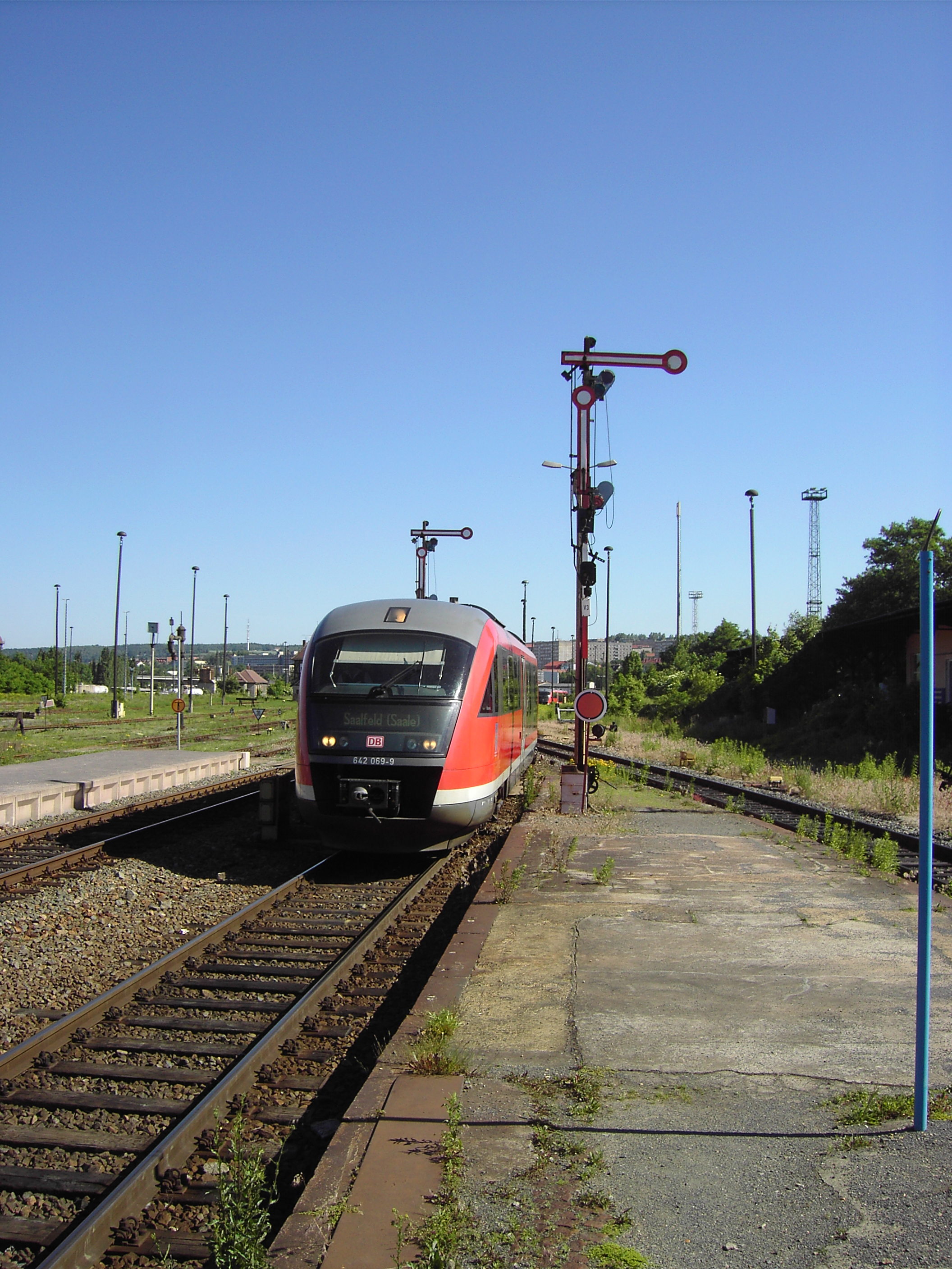 DMU, Class 642, arrives in Gera main station